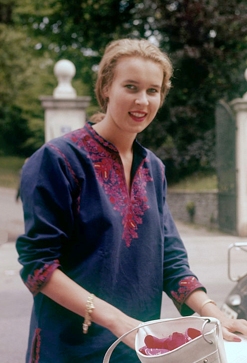 Princess Maria Gabriella of Savoy, daughter of the last king of Italy, Umberto II, and Maria José, with her friend Robert Matossian, the son of an important Armenian tycoon prepares for the clover rally, a car race organised by some university companions. Geneva (Switzerland), May 1960